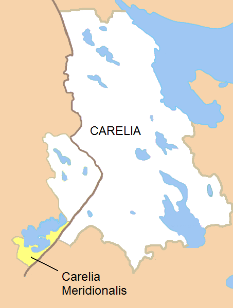 Modified picture to show just the location of Southern Karelia in Karelia